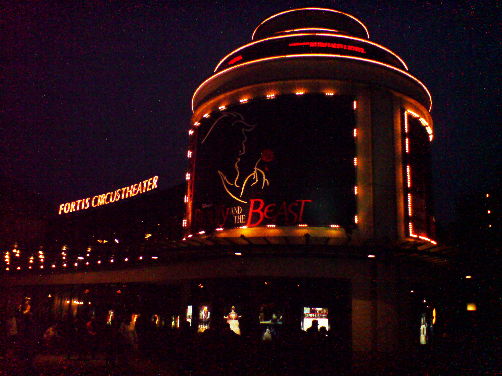 Fortis Circustheater in Scheveningen by night; the musical "Beaty and the Beast" is on display.